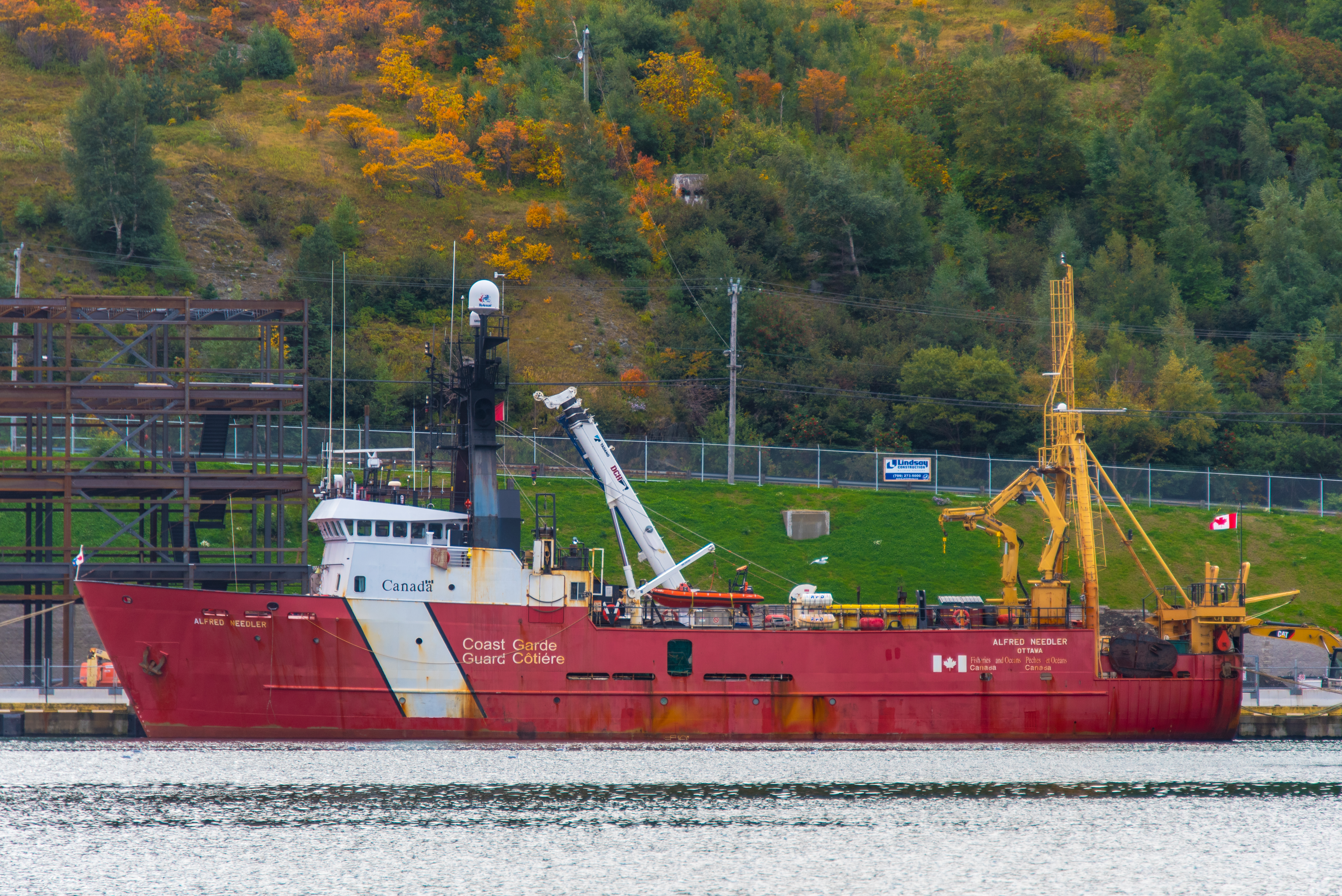 Offshore fishery science vessel, CCGS ALFRED NEEDLER - IMO 7907104, operated by the Canadian Coast Guard Service at St. John's Harbor, Newfoundland on October 8, 2017.